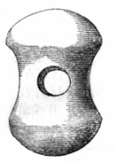 Amber bead from the destroyed megalithic tomb at Viecheln